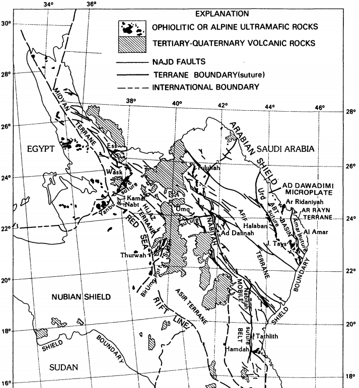 USGS Arabian-Nubian Shield Terranes